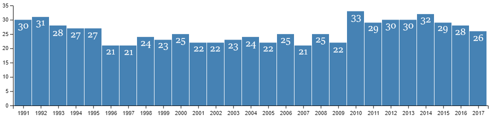 Population of Greenlandic settlement Qeqertat in 1991-2017.